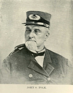 Photograph of NYPD inspector John S. Folk as appearing in Brooklyn's Guardians (1887) by William E. S. Fales.